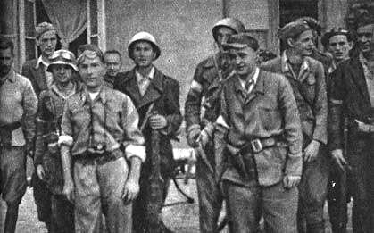 Warsaw Uprising: Command of the operation which won control over Holy Cross Church and Police Headquarters on August 23, standing soon after the end of fighting in front of the Police Headquarters: commander major Bernard Romanowski "Wola" (in the front with rolled-up sleaves) and captain Józef Rybicki "Andrzej" (on the right).